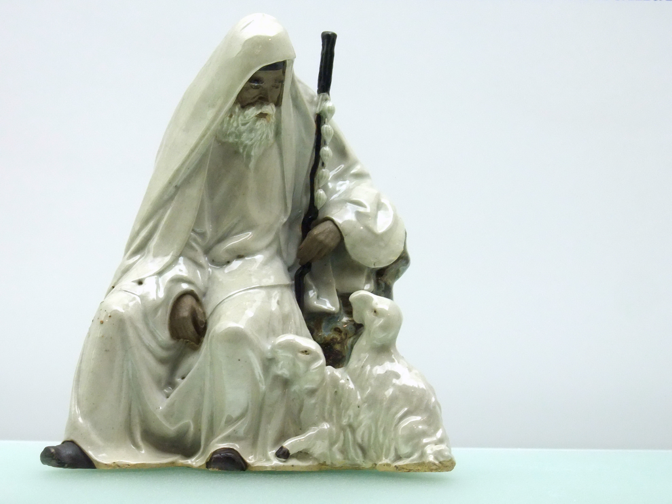 Su Wu herding sheep figurine on display at the Hong Kong Museum of Art.